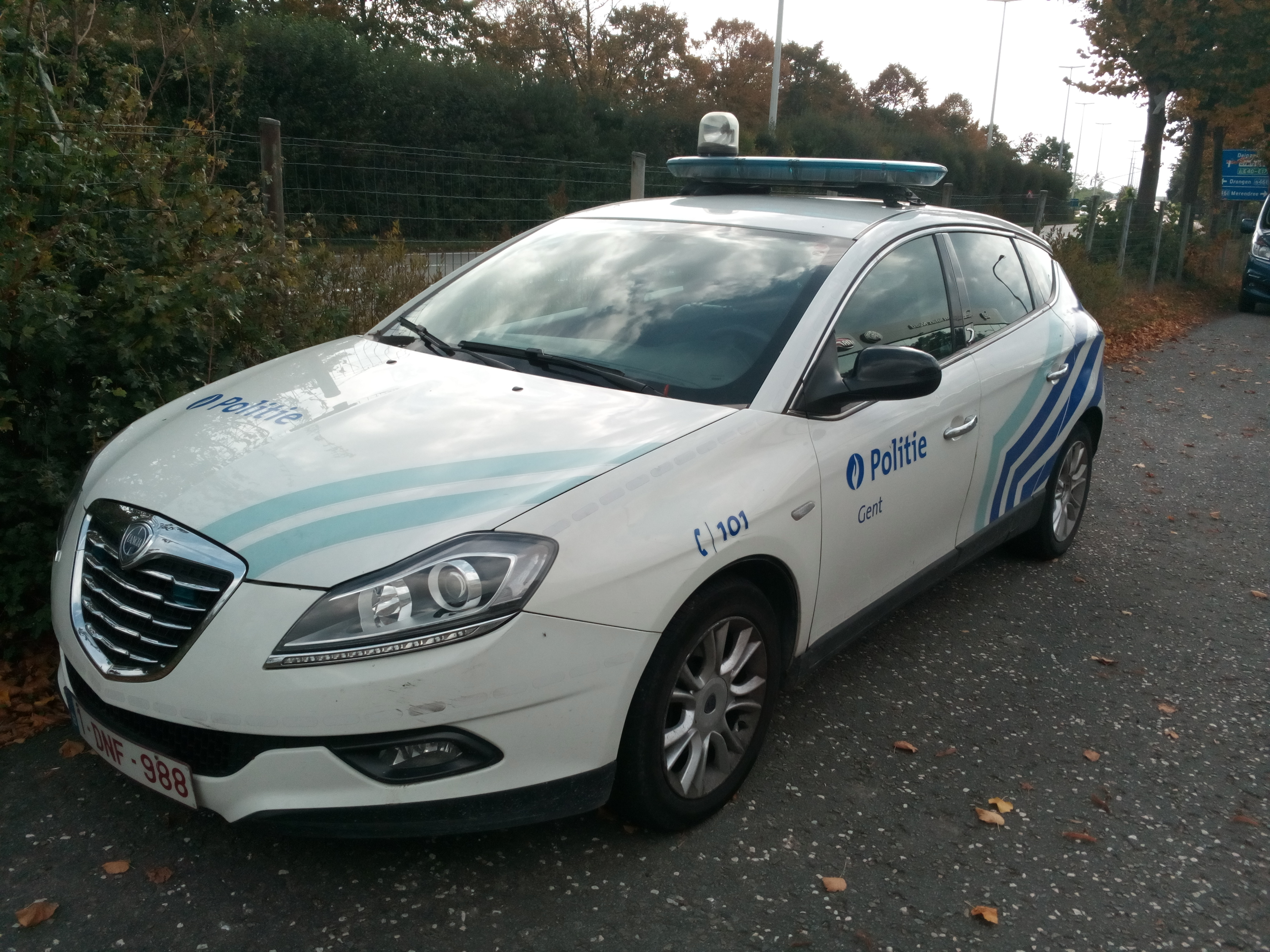 Lancia Delta Police car,Gent Belgium